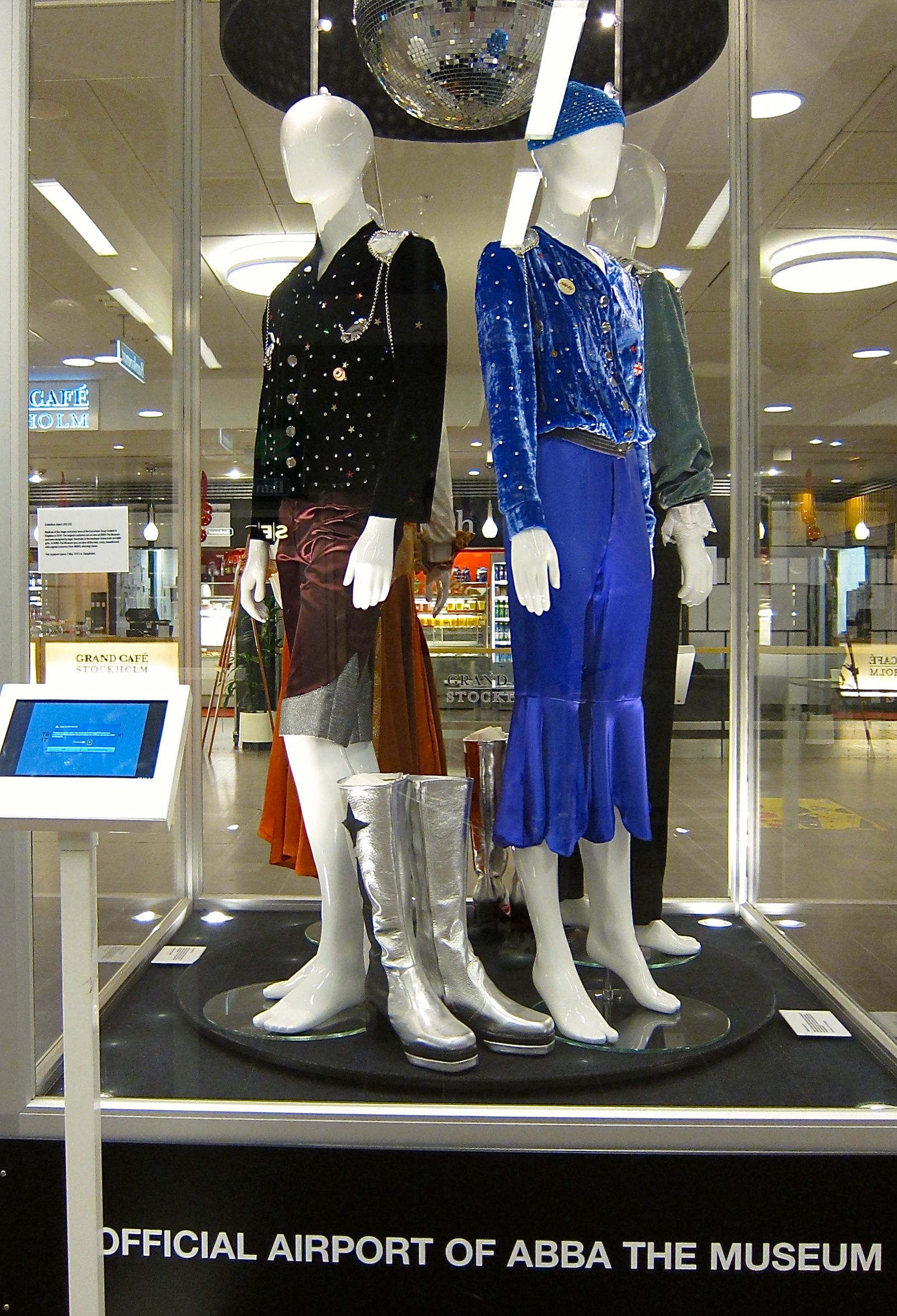 The upcoming ABBA museum markets itself at Arlanda airport.